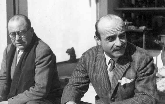 Tullio Mazzotti aka Tullio d'Albisola and Lucio Fontana. Lucio Fontana (1899 – 1968) was a painter and sculptor born in Rosario, Argentina.